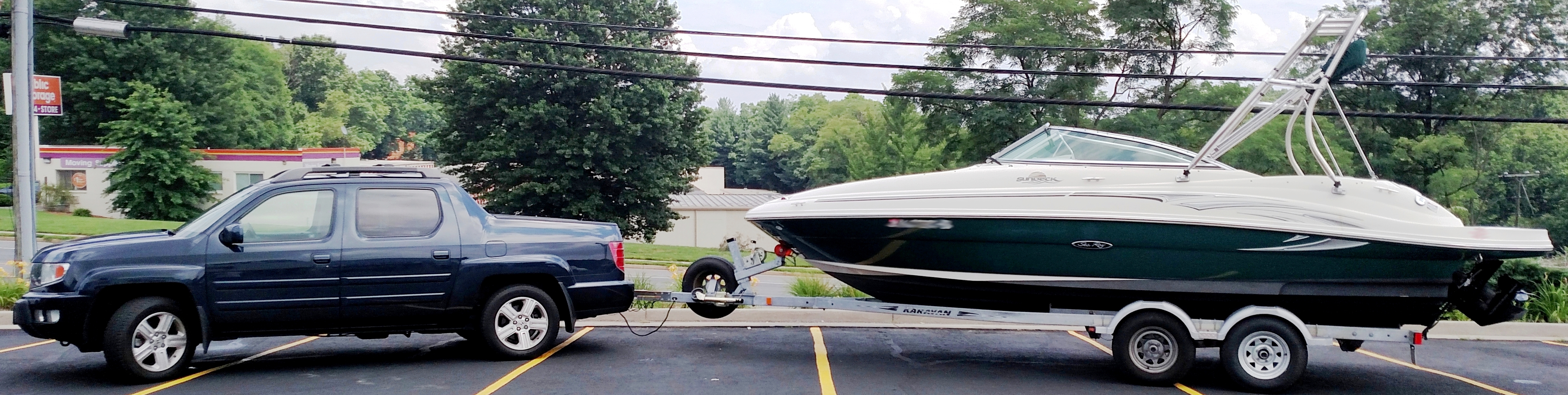 Image of a 2009 Honda Ridgeline RTL towing a 2005 Sea Ray 220 Sundeck via a 2010 Karavan KKBT-4800-DB-78-L boat trailer.